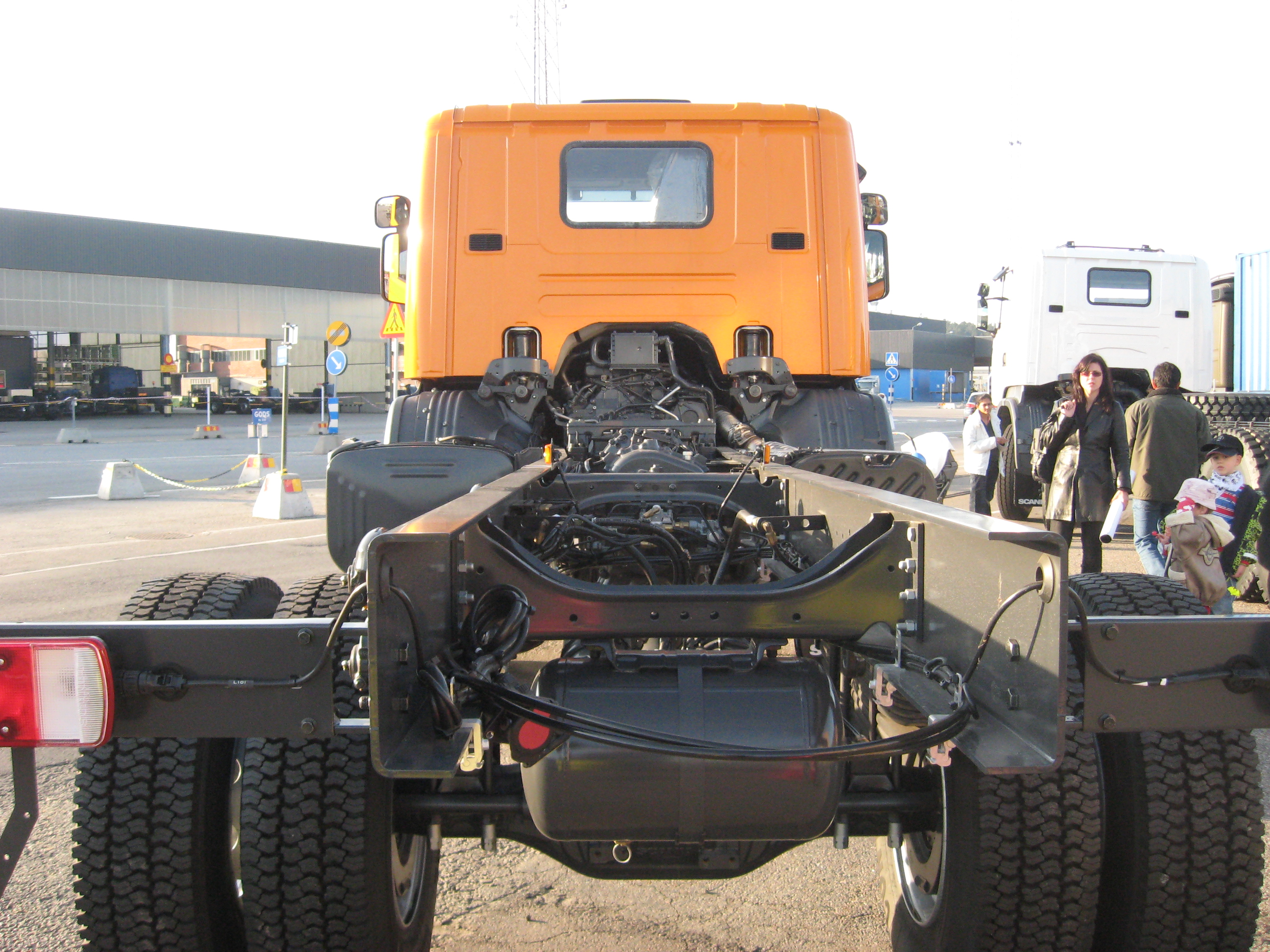 Scania P420 4x4HHZ3900 CP14L cab. Inline 6 cylinder engine giving 420 hp, 2100Nm. GRS905 gearbox.